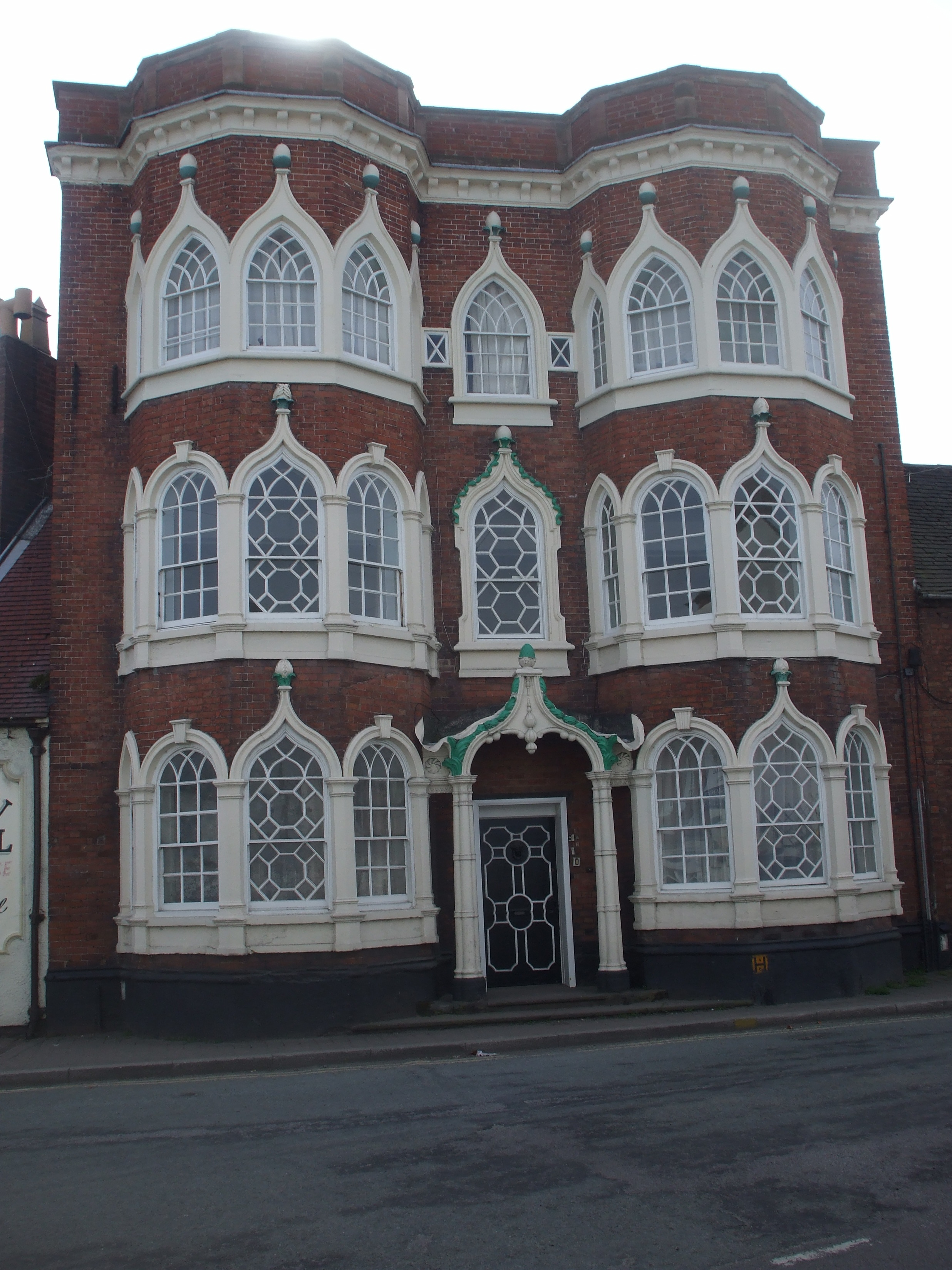 Speedwell Castle, Brewood Apparently the house was built with the proceeds from a bet on a horse called Speedwell. It is now divided into apartments.